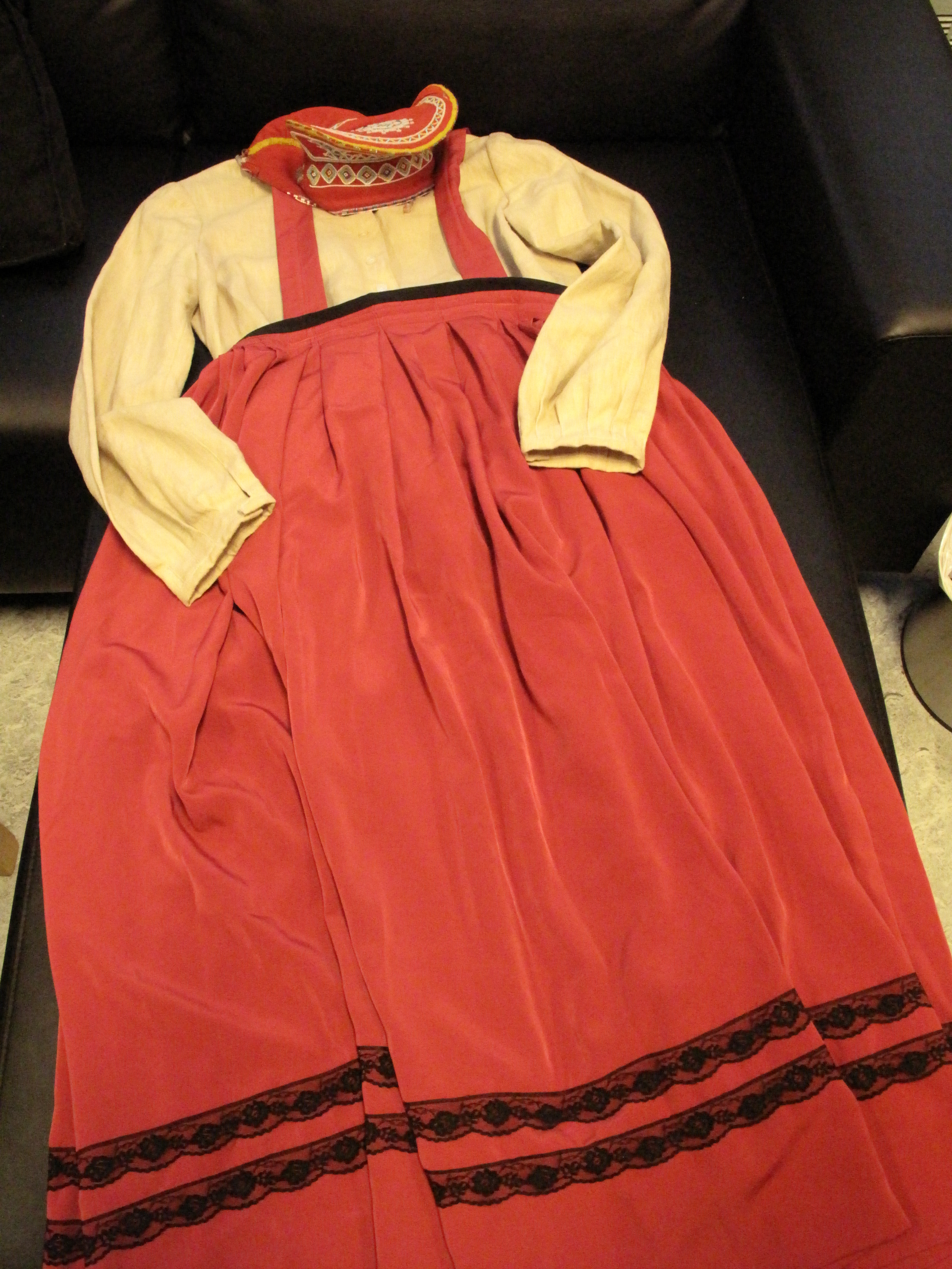 Skolt Saami dress